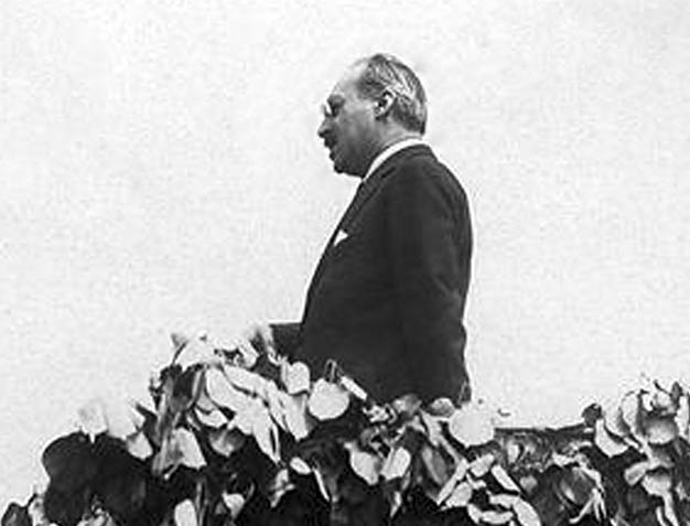 Ion Gheorghe Duca (1879 - 1933), Romanian politician, official photograph from the 1920s (during his term as Minister of Foreign Affairs during a patriotic celebration in 1925).